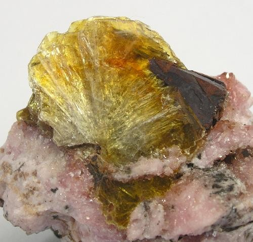 Shigaite, Rhodochrosite Locality: N'Chwaning Mines, Kuruman, Kalahari manganese fields, Northern Cape Province, South Africa (Locality at ) Size: 2.7 x 2.4 x 1.7 cm. A superb bladed, dark reddish crystal of Shigaite on Rhodochrosite is covered by additional yellow/golden shigaite crystals. This is a super thumbnail from a small and unusual find, according to Charlie. The vitreous luster is fantastic, the combination fascinating. Ex. Charlie Key.